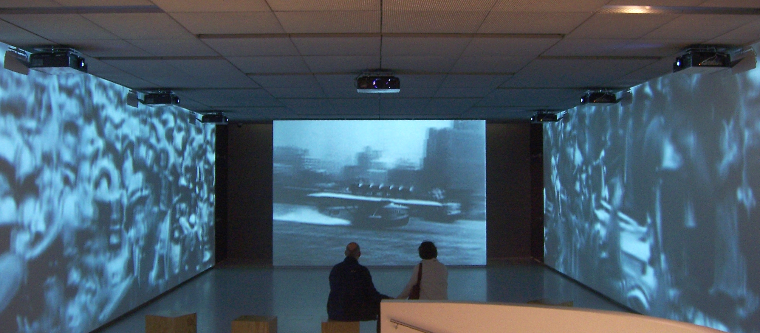 Dornier Museum Museumsbox